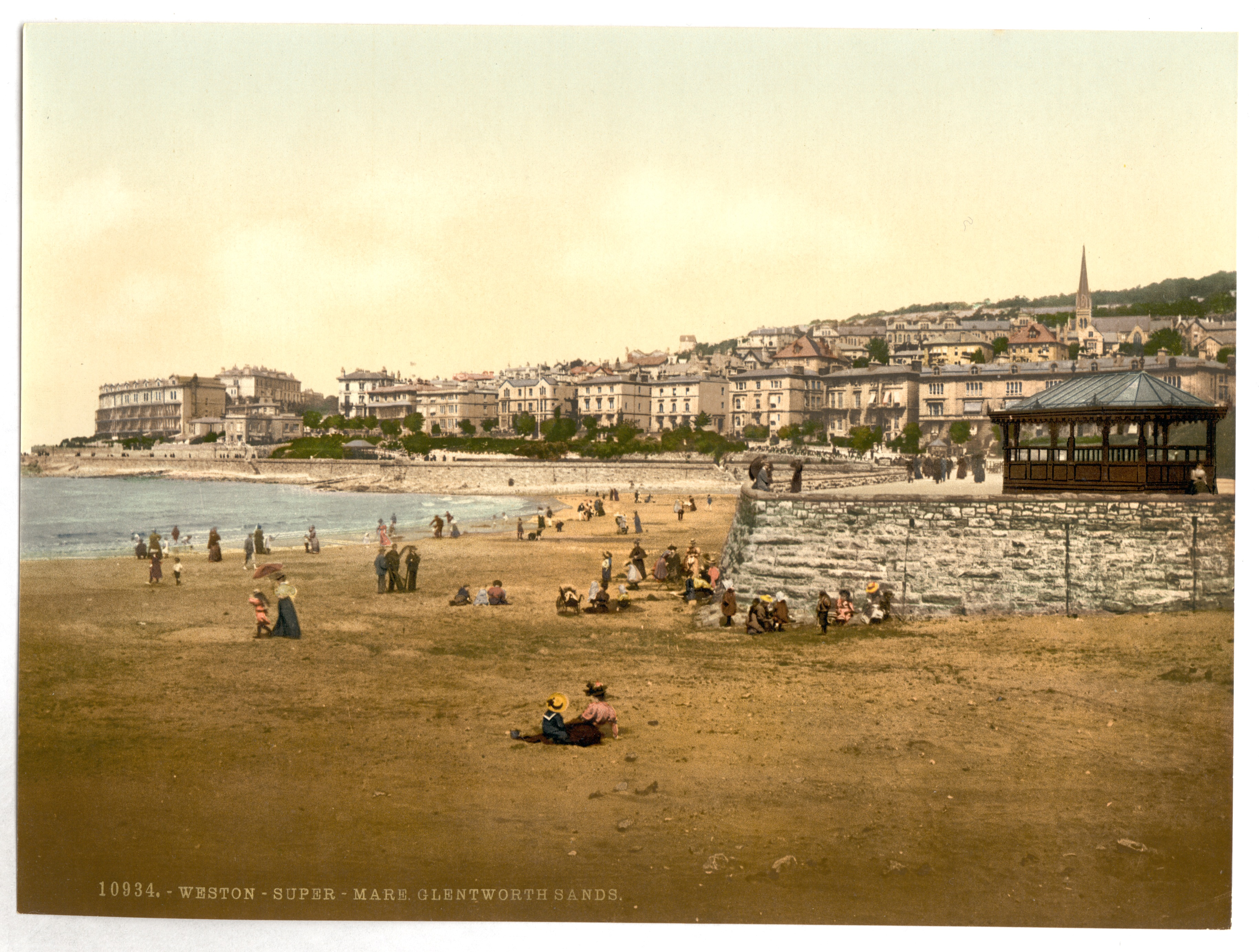 Title from the Detroit Publishing Co., Catalogue J-foreign section, Detroit, Mich. : Detroit Publishing Company, 1905.; Print no. "10934".; Forms part of: Views of England in the Photochrom print collection.